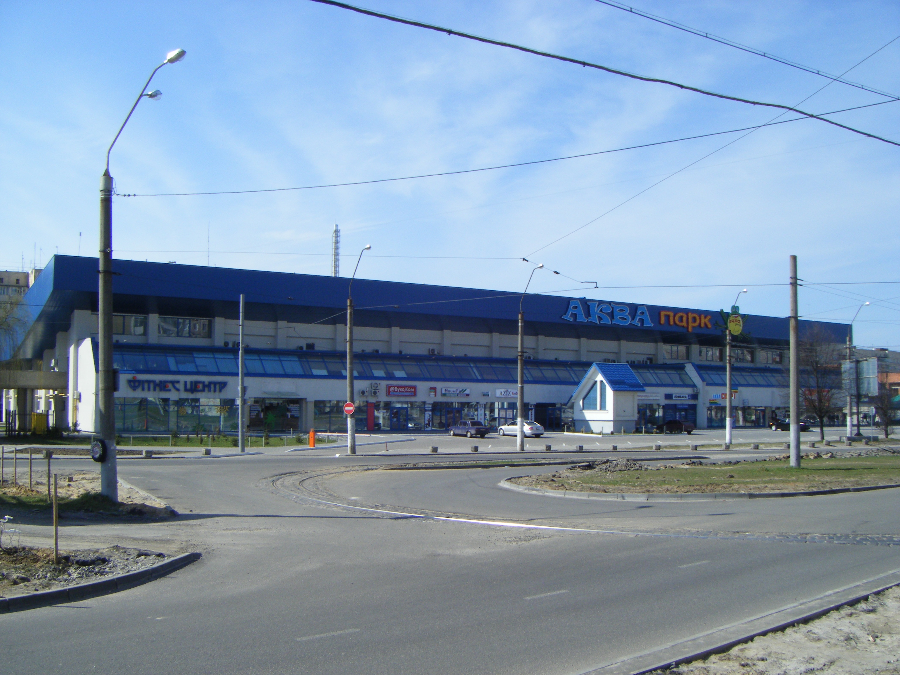 Waterpark in Lviv